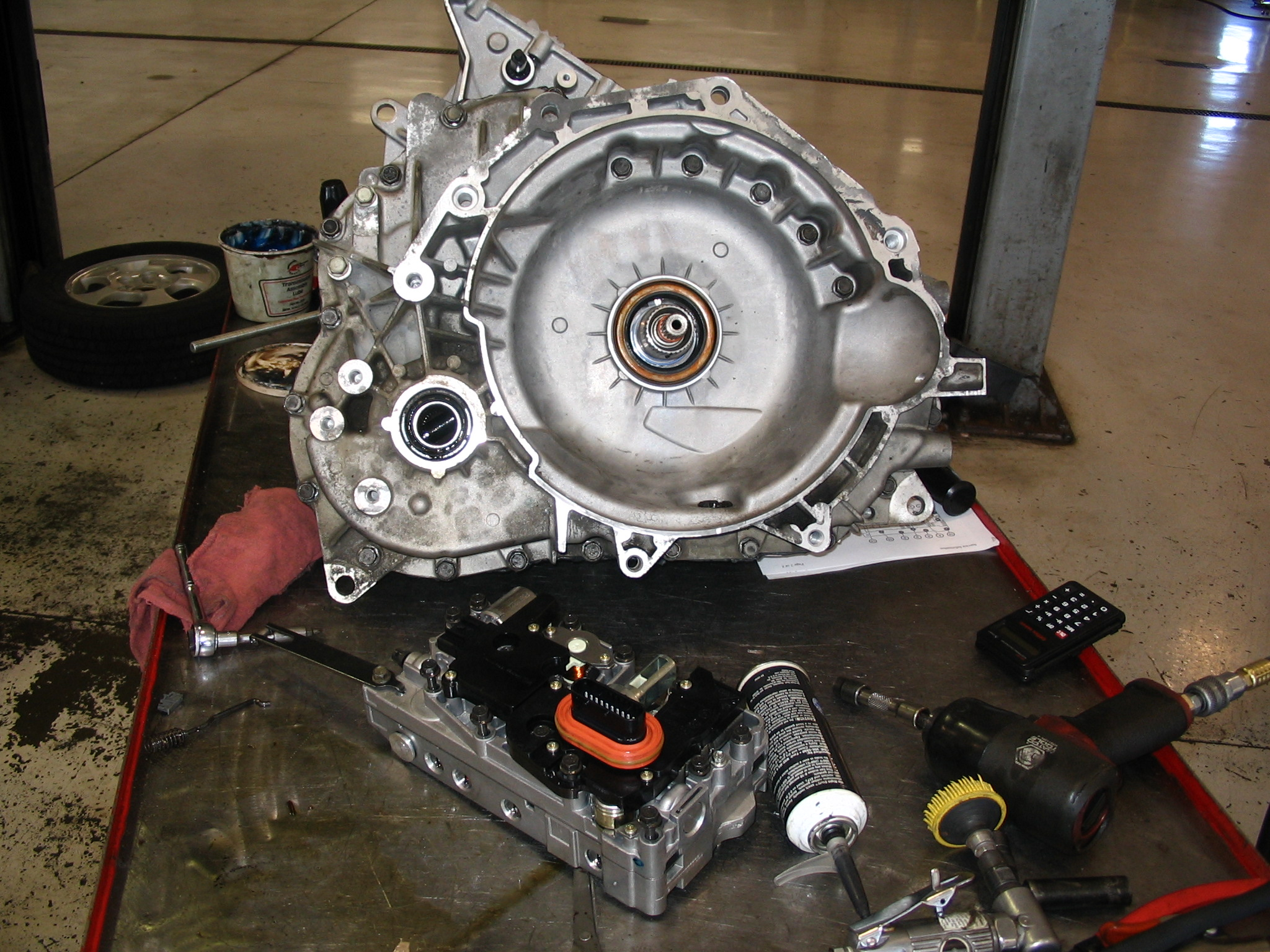 This photo was taken by myself, User:EMcCutchan.